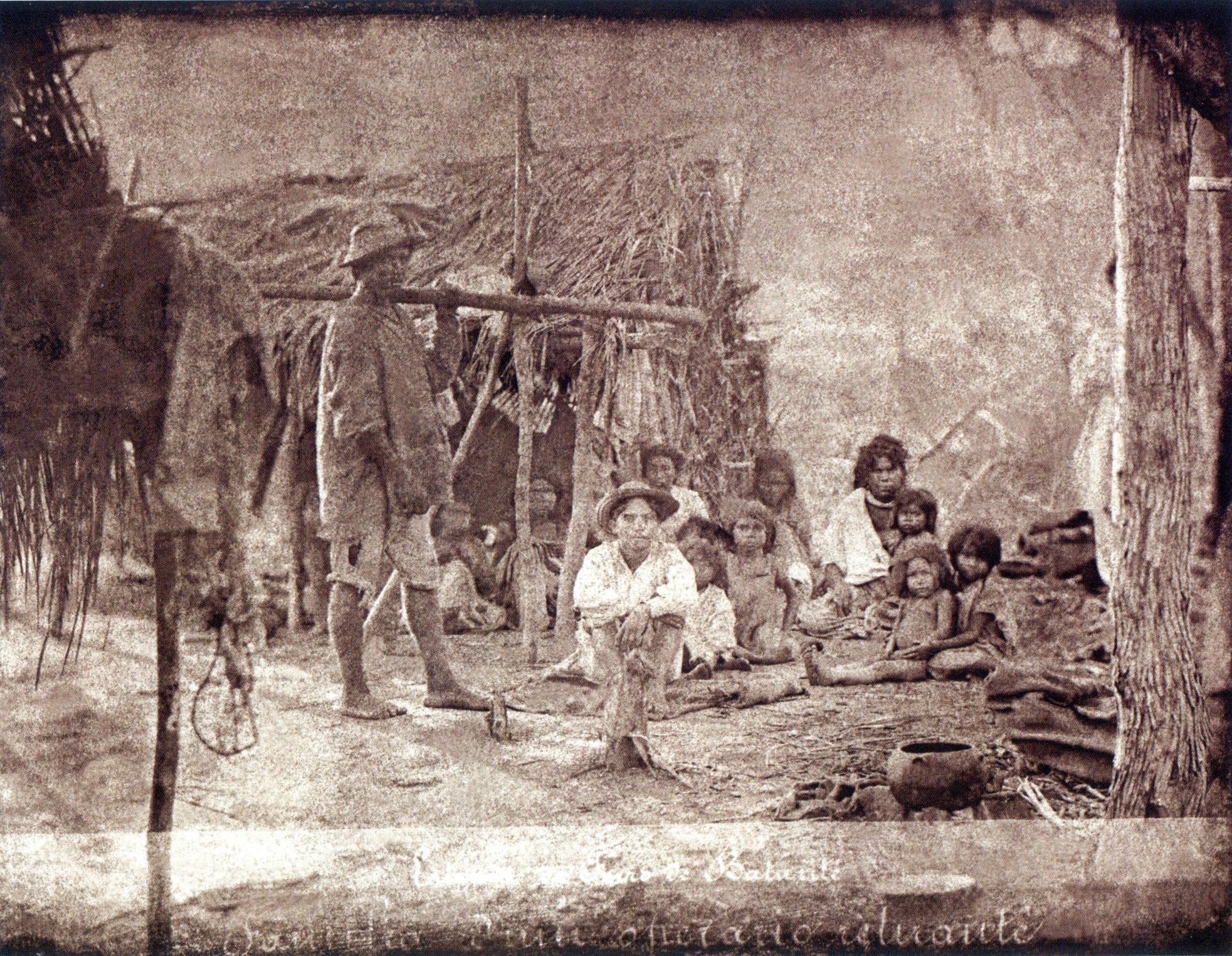 A railroad worker and his very poor family in Ceará province, Empire of Brazil, 1880.